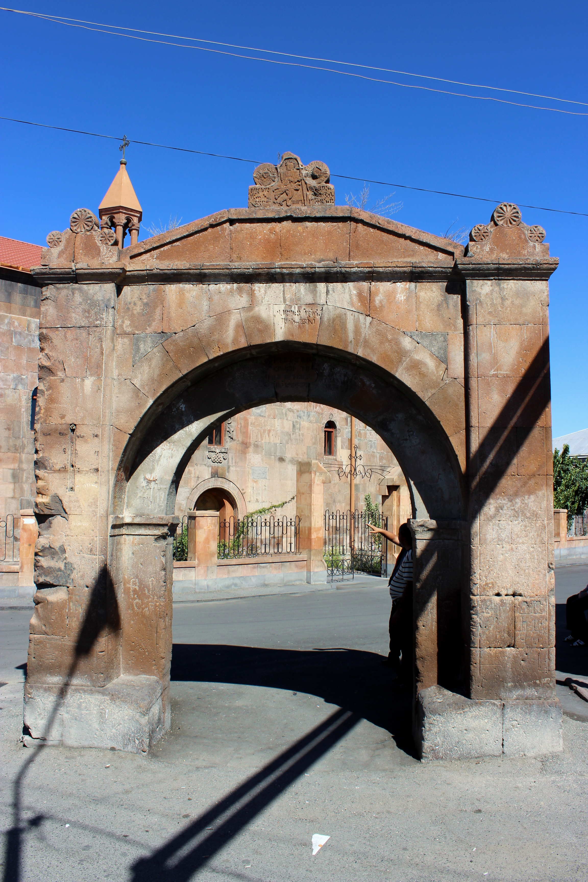 Gate of 1887 at S. Hakob Church in Kanaker, Armenia